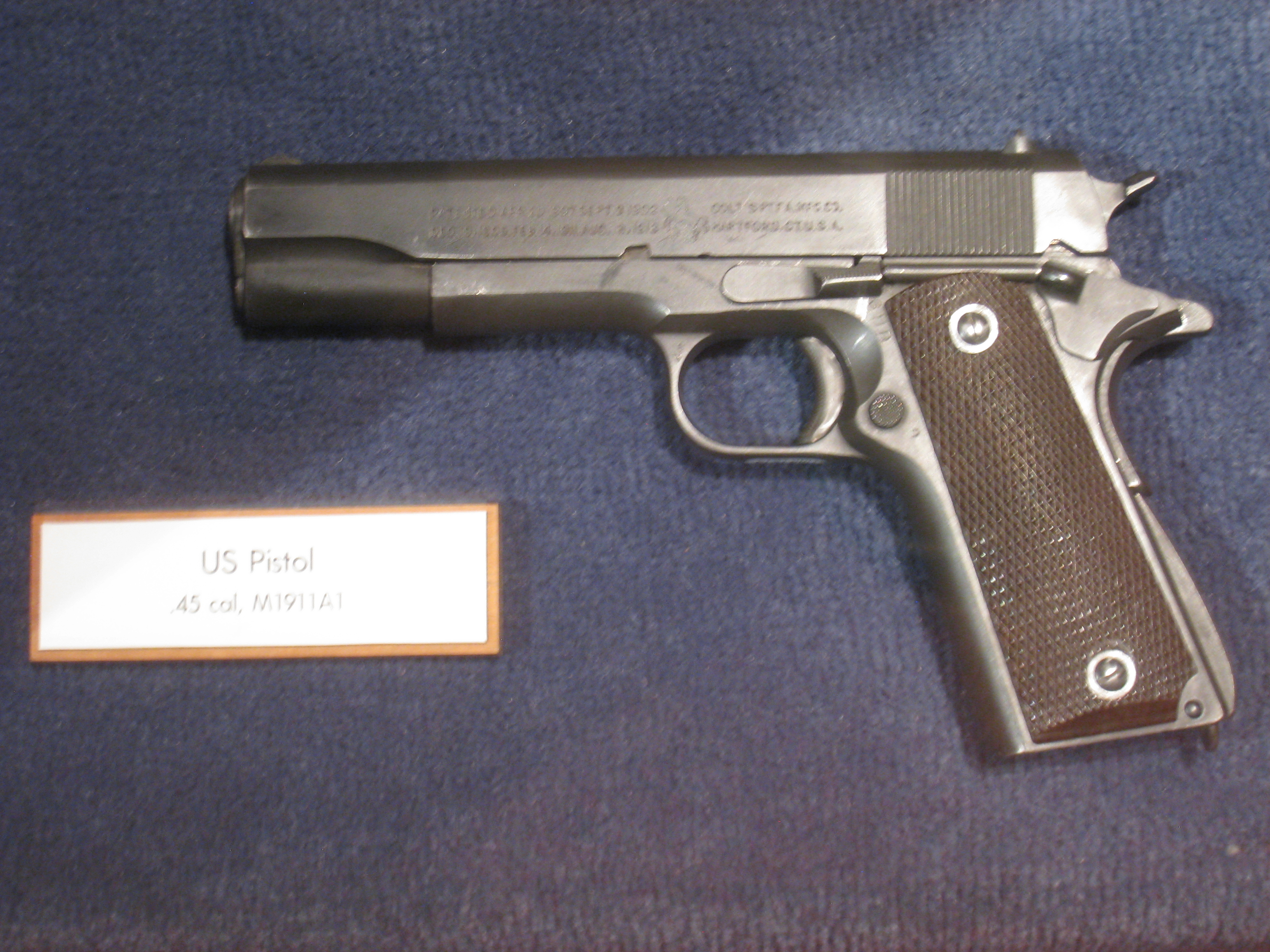 US pistol, .45 caliber M1911A1, U.S. Army Museum of Hawaii, Honolulu, Hawaii, USA.